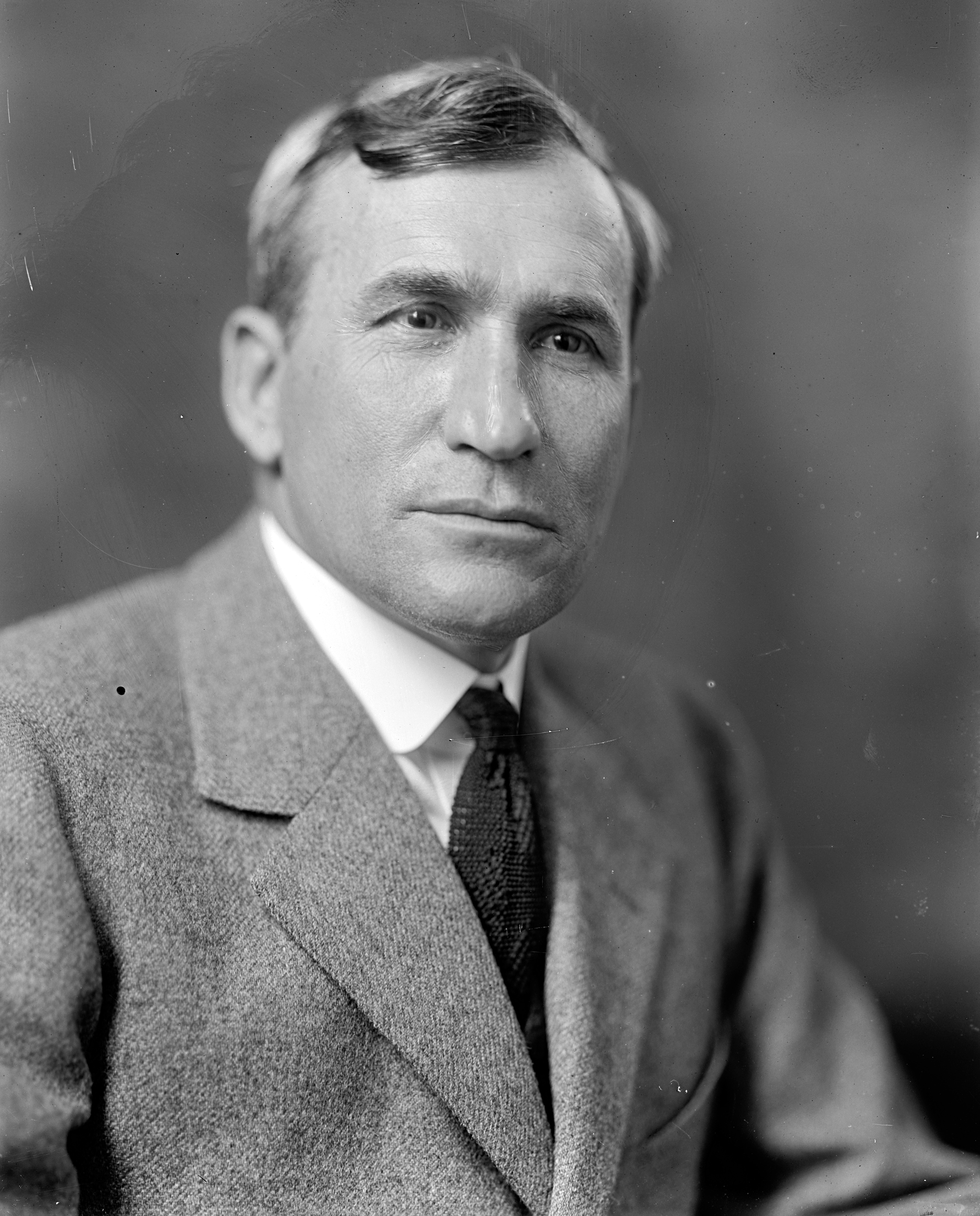 Adam Martin Wyant, US Representative from Pennsylvania